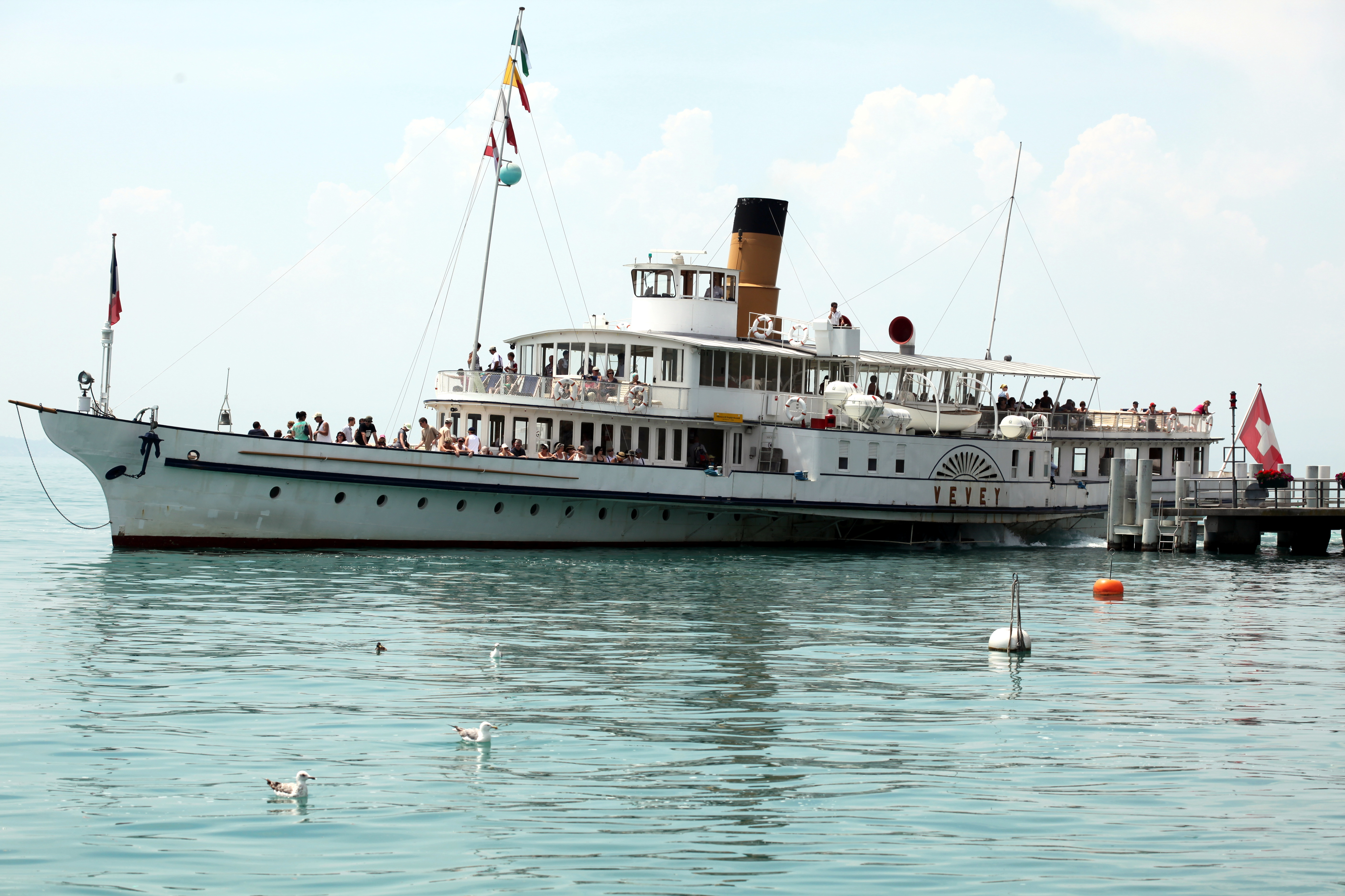 Swiss paddle steamer Vevey departing from Vevey dock.